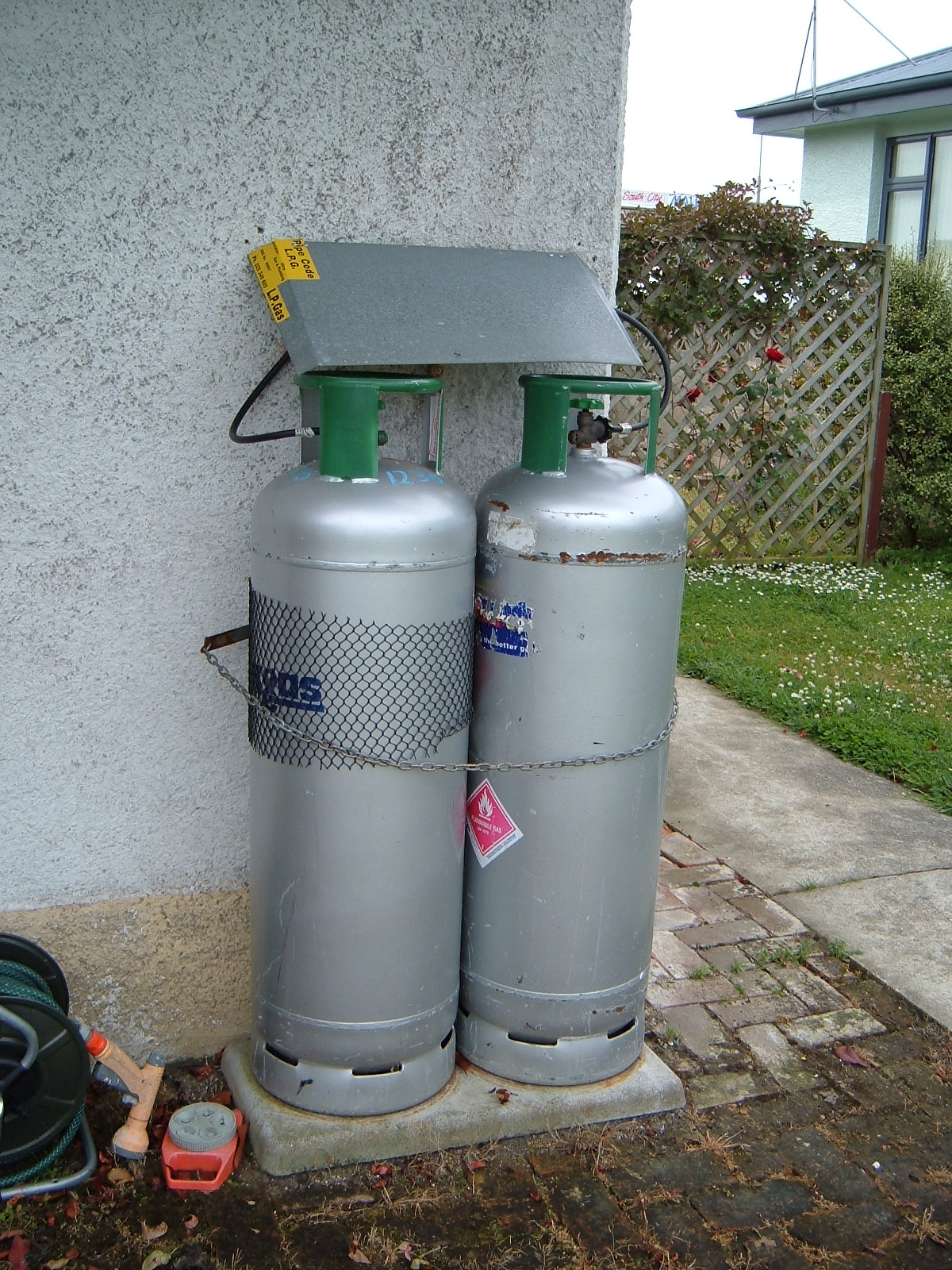 Two 45 kg LPG (Liquified petroleum gas) cylinders in New Zealand. Other than this type cylinder there are auto lpg cylinders many different sizes and volumes.